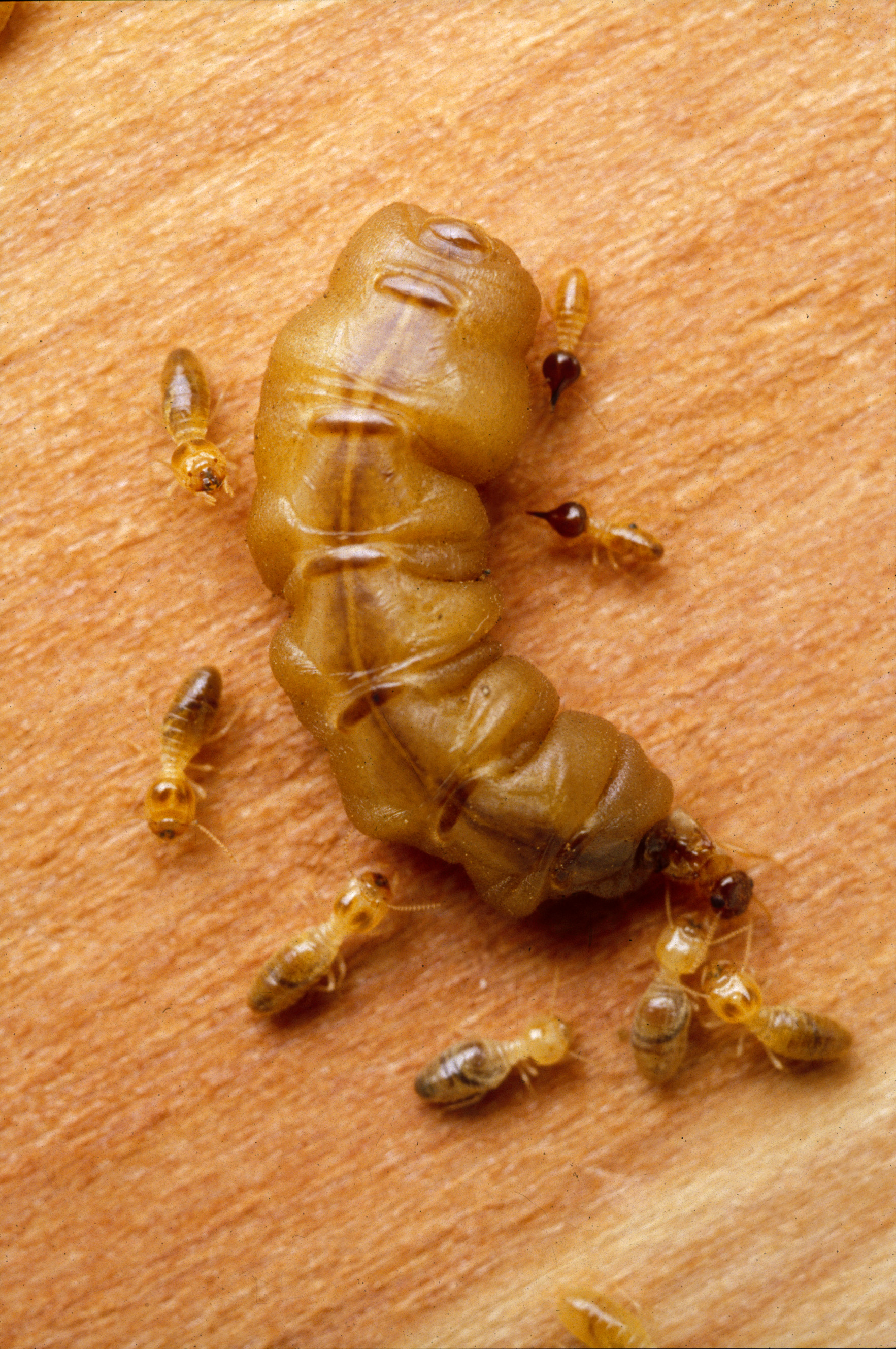 Mature queen termite surrounded by both workers and soldiers - Nasutitermes exitiosus.